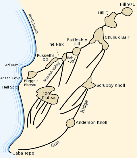 Map of the Anzac battlefield at Gallipoli depicting the main plateaus and ridges. Traced from marginal map in Ch.11, Vol. I "The Story of Anzac" of the Official History of Australia in the War of 1914-18 by C.E.W. Bean.